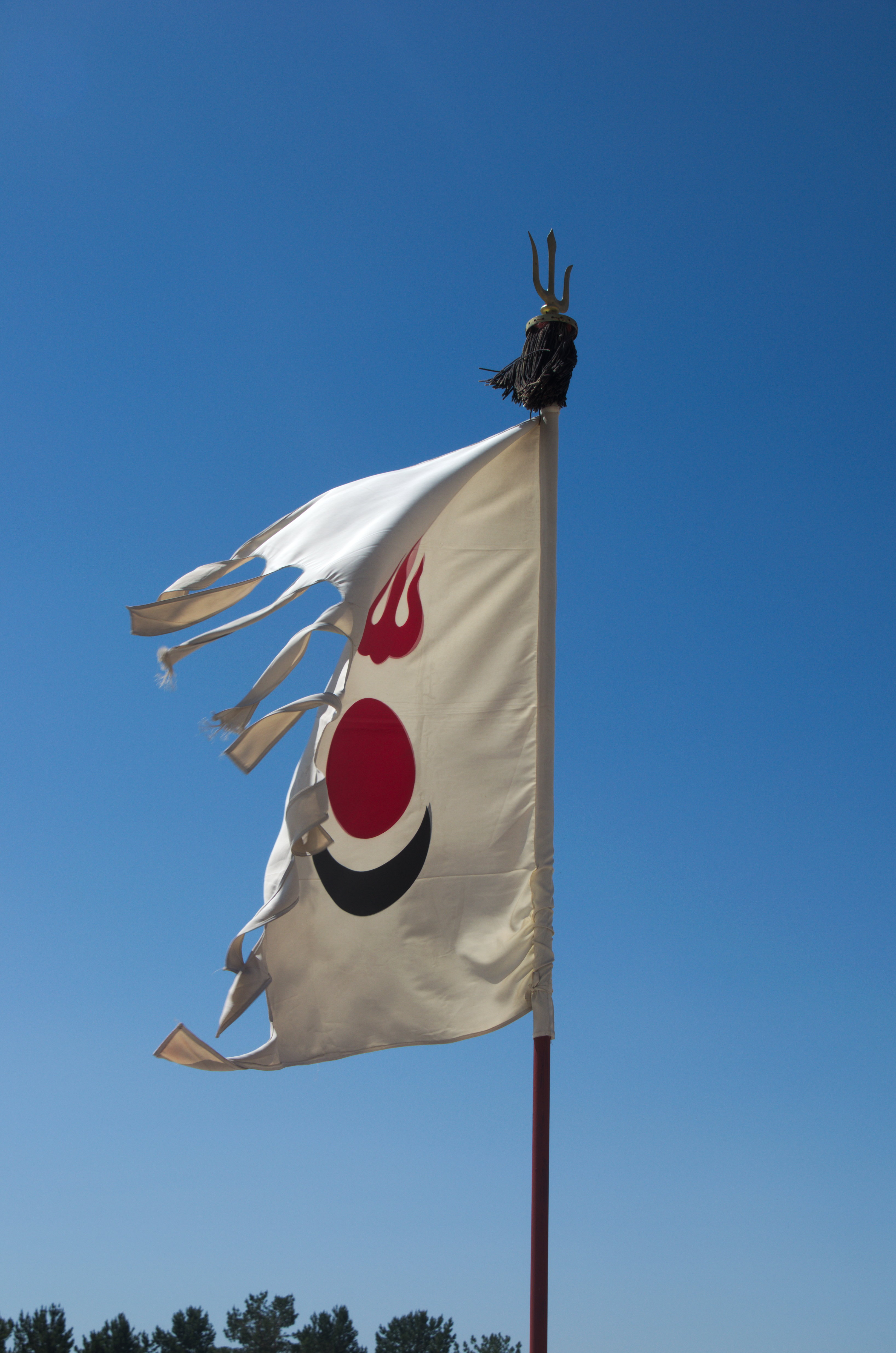 Süld and flag of the Mausoleum of Genghis Khan, in Dongsheng district, Ordos, Inner Mongolia, China.